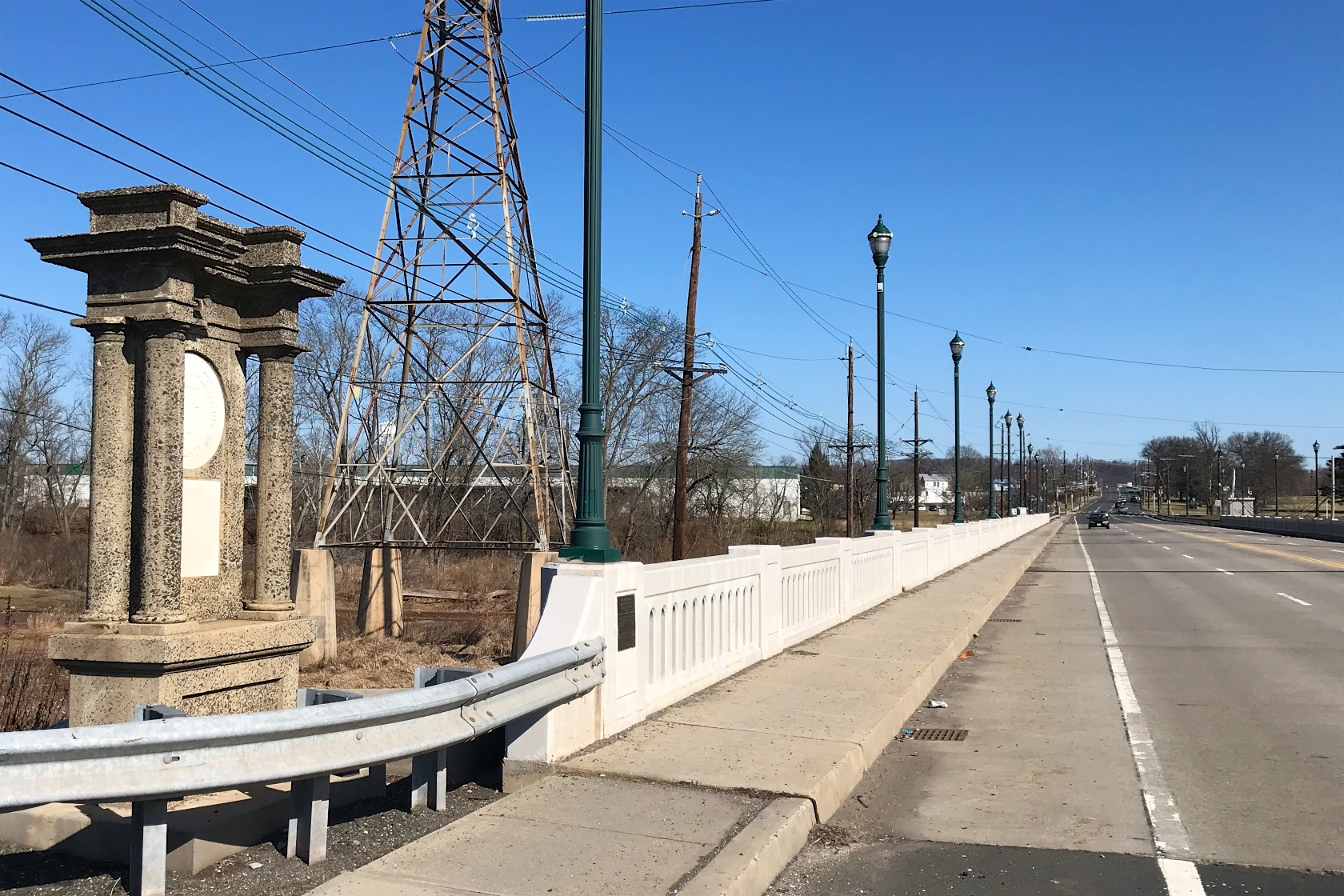 View looking north on Van Veghten's Bridge over the Raritan River.